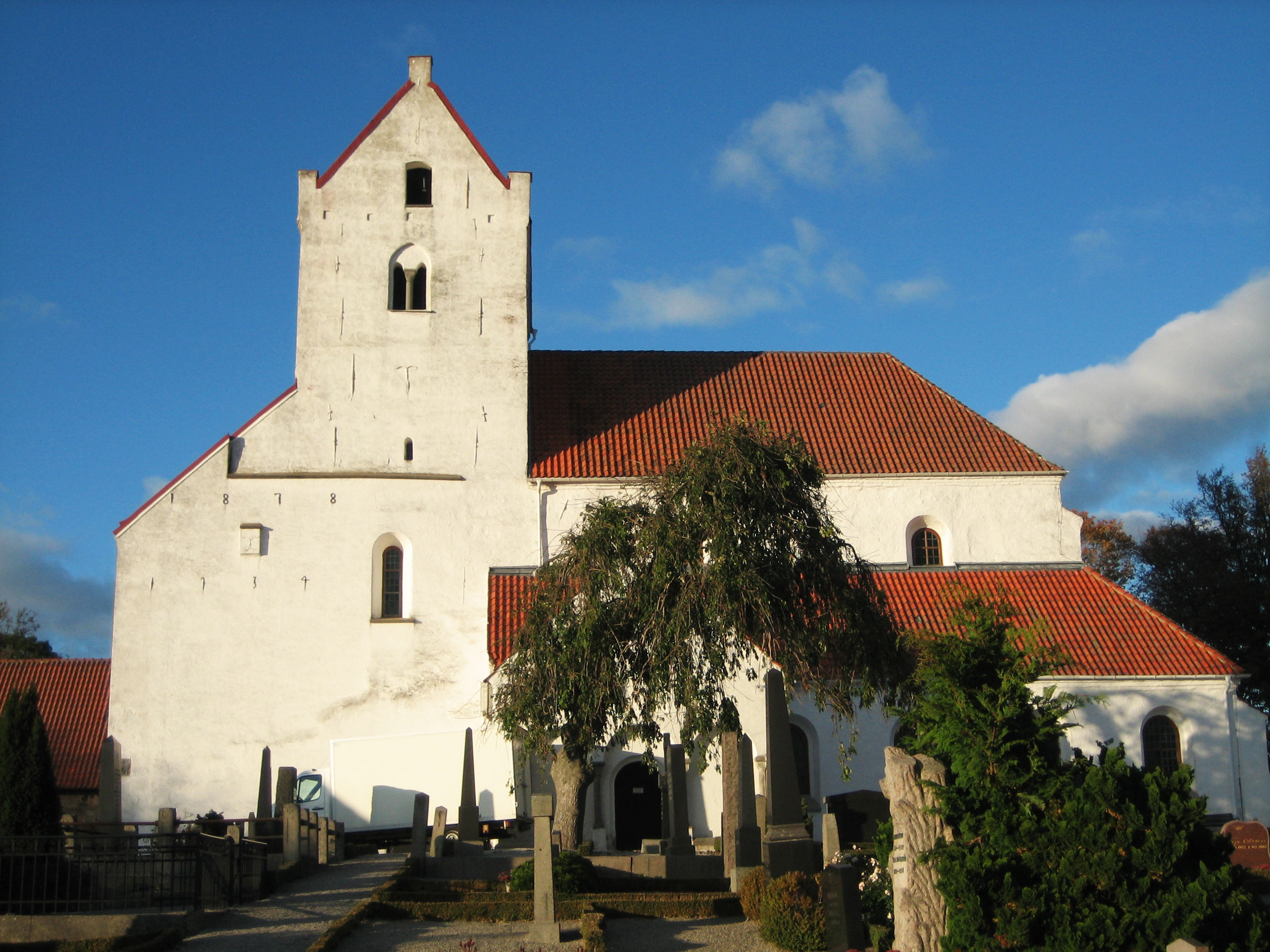 Dalby church (Dalby kyrka) in Skåne, Sweden. Photo by the uploader.